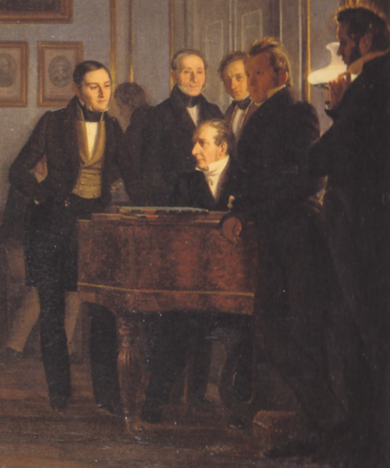 The painting has been cropped to show the group around the composer C.E.F. Weyse, sitting at the piano.